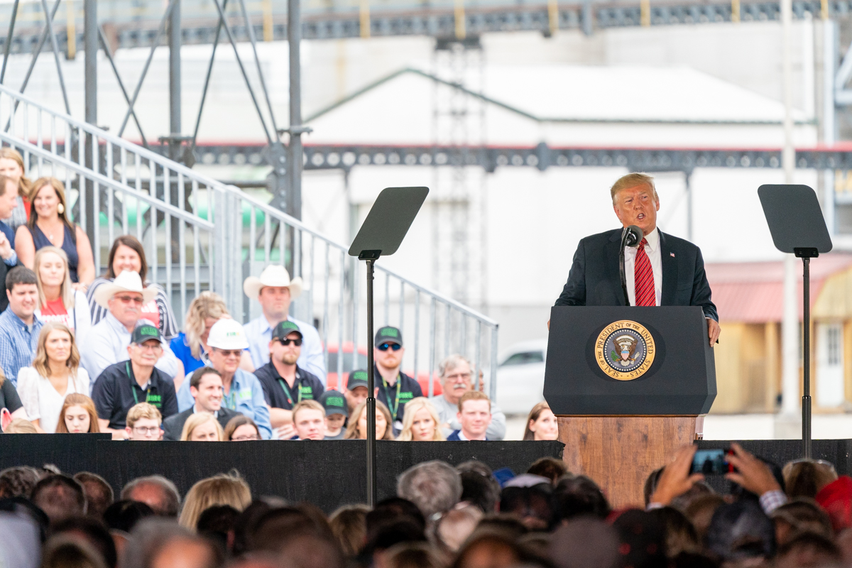 President Donald J. Trump addresses his remarks Tuesday, June 11, 2019, on his visit to the Southwest Iowa Renewable Energy facility in Council Bluffs, Iowa. (Official White House Photo by Shealah Craighead)